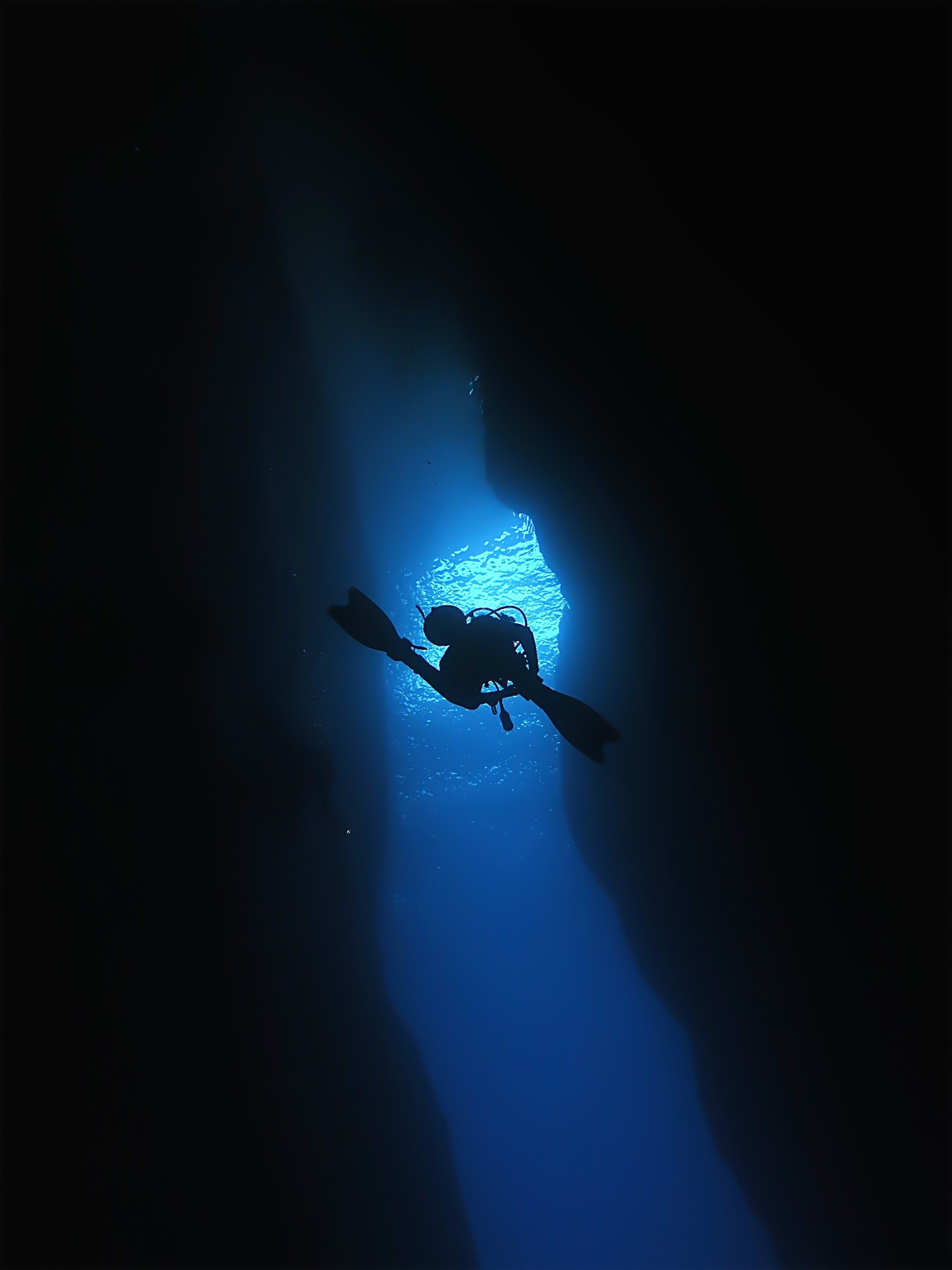 Diver in the Inland sea Gozo